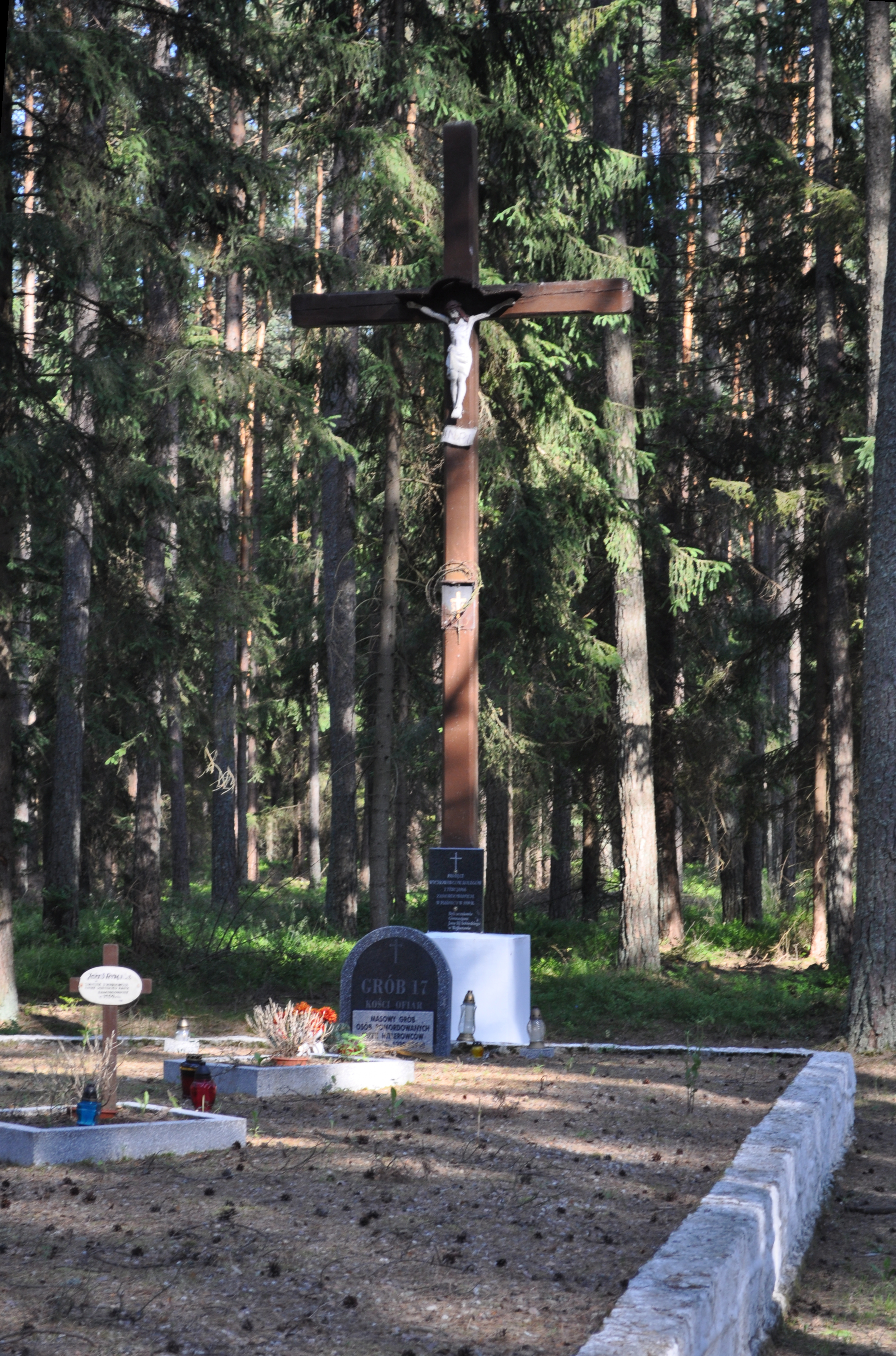 Mass grave in Piaśnica Forest.